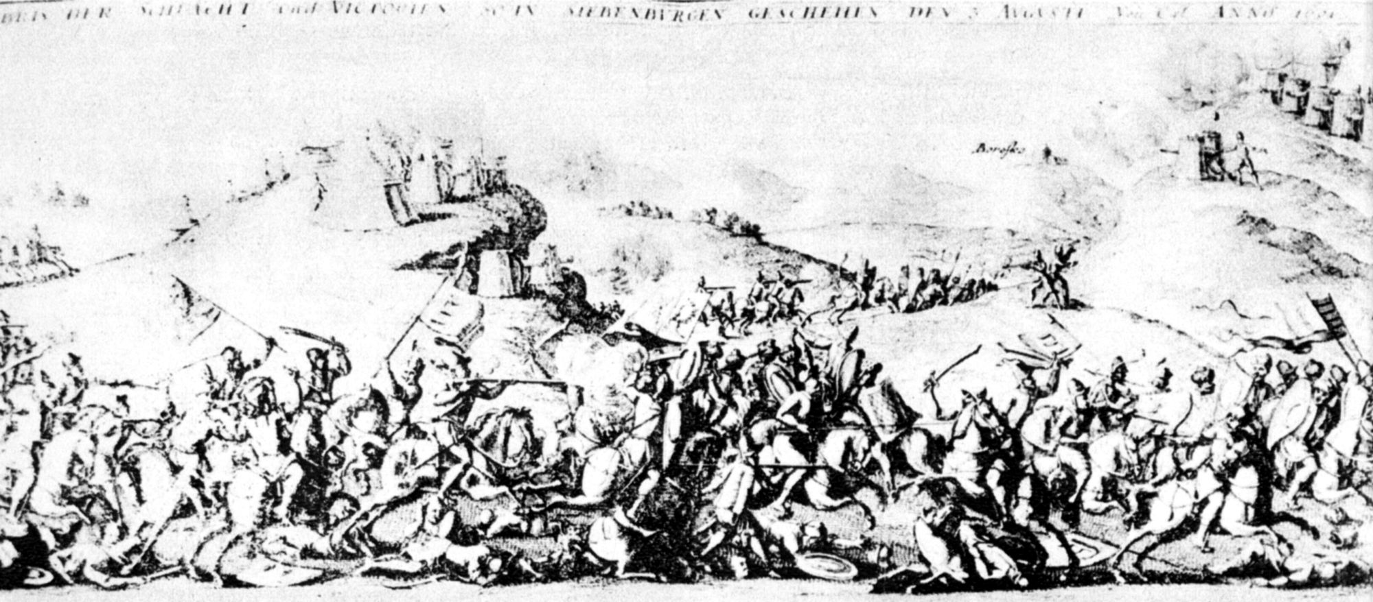 Michael the Brave defeating the Hungarians in Guraslau, 1601.